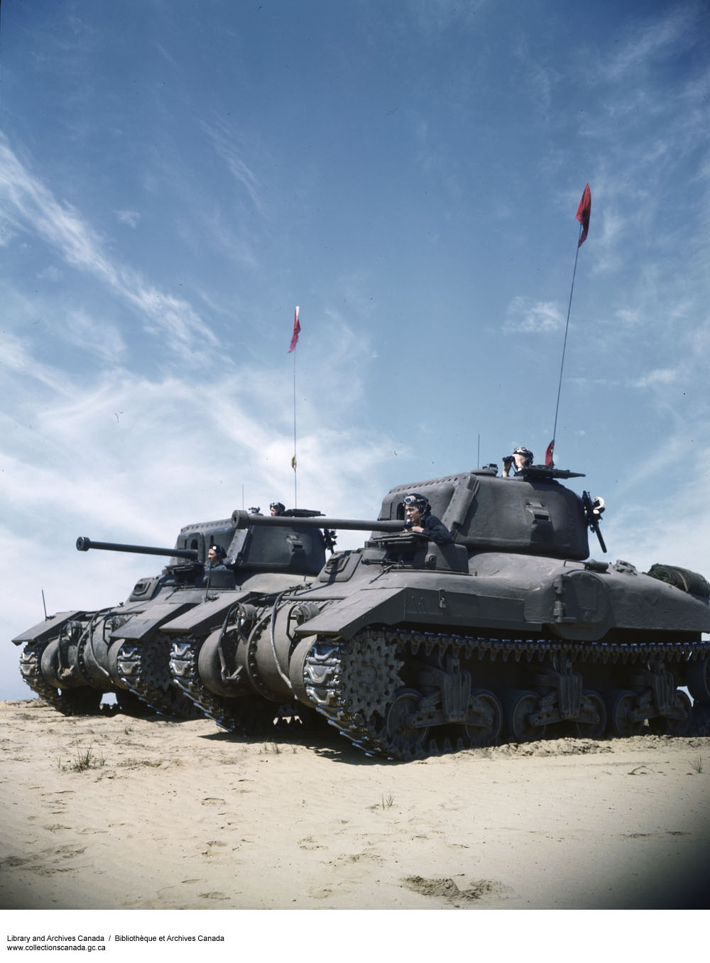 Canadian Ram tanks used for training at Camp Borden